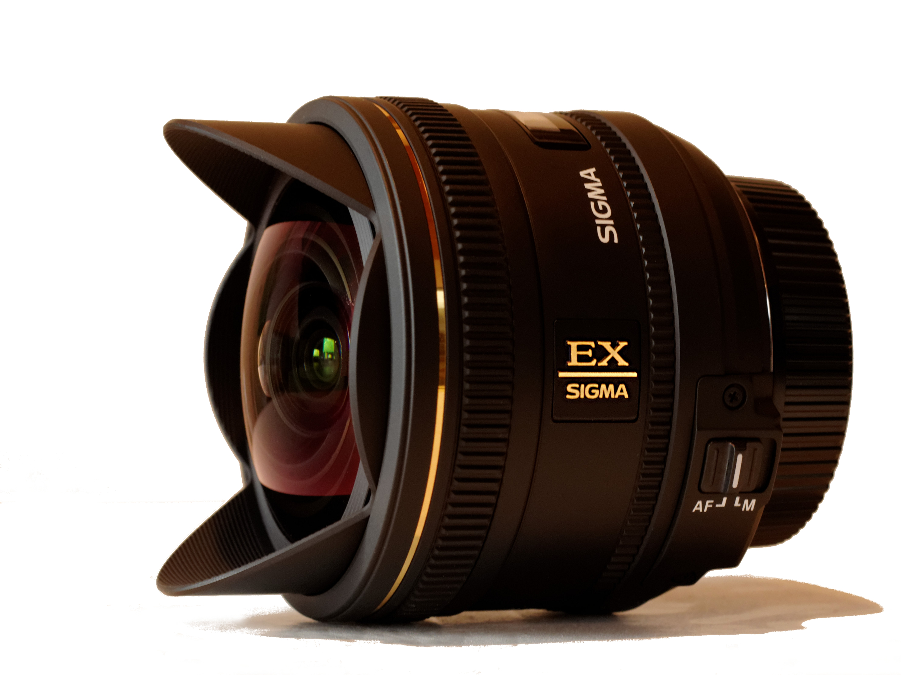 Sigma 10 mm F2,8 EX DC HSM Fisheye lens